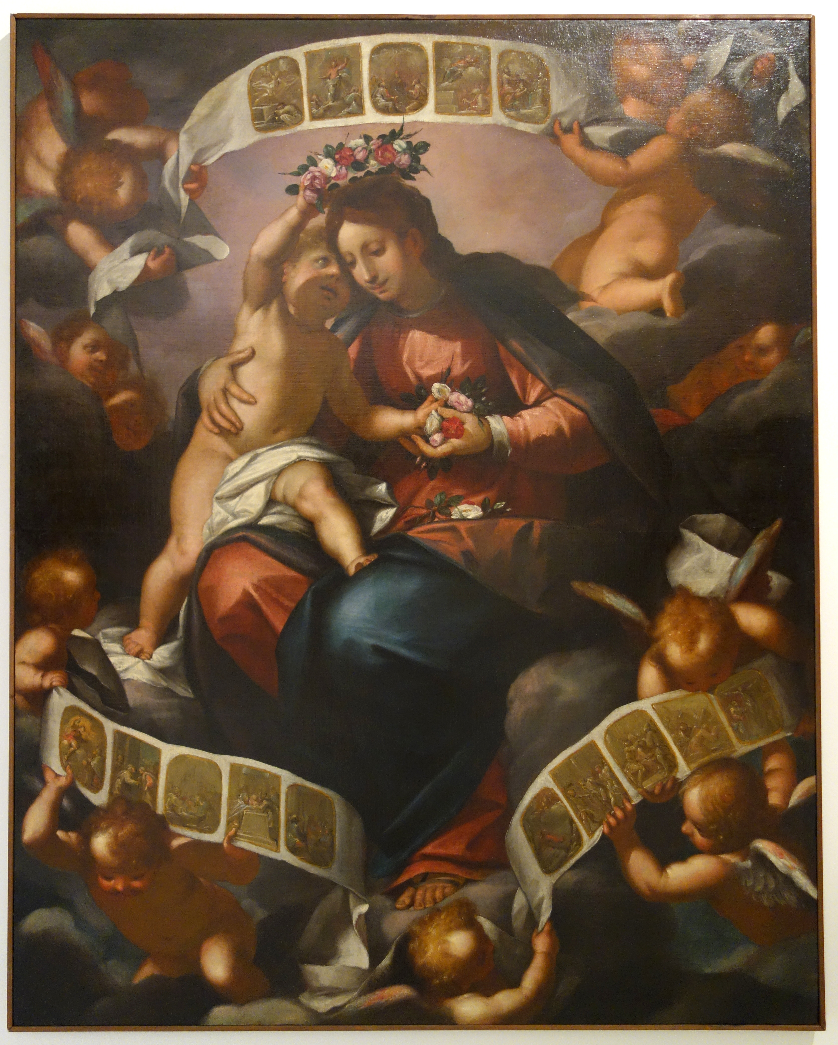 Madonna of the Rosary